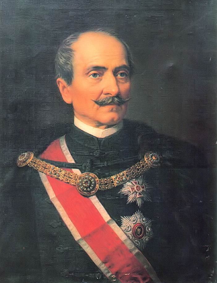 Count Imre Mikó de Hidvég (1805–1876), Transylvanian and Hungarian landowner, politician and historian.